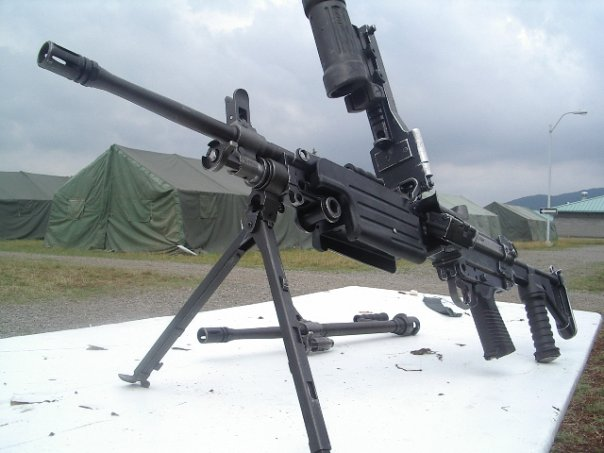 A friend of mine made this picture and I uploaded it for him, with permission.